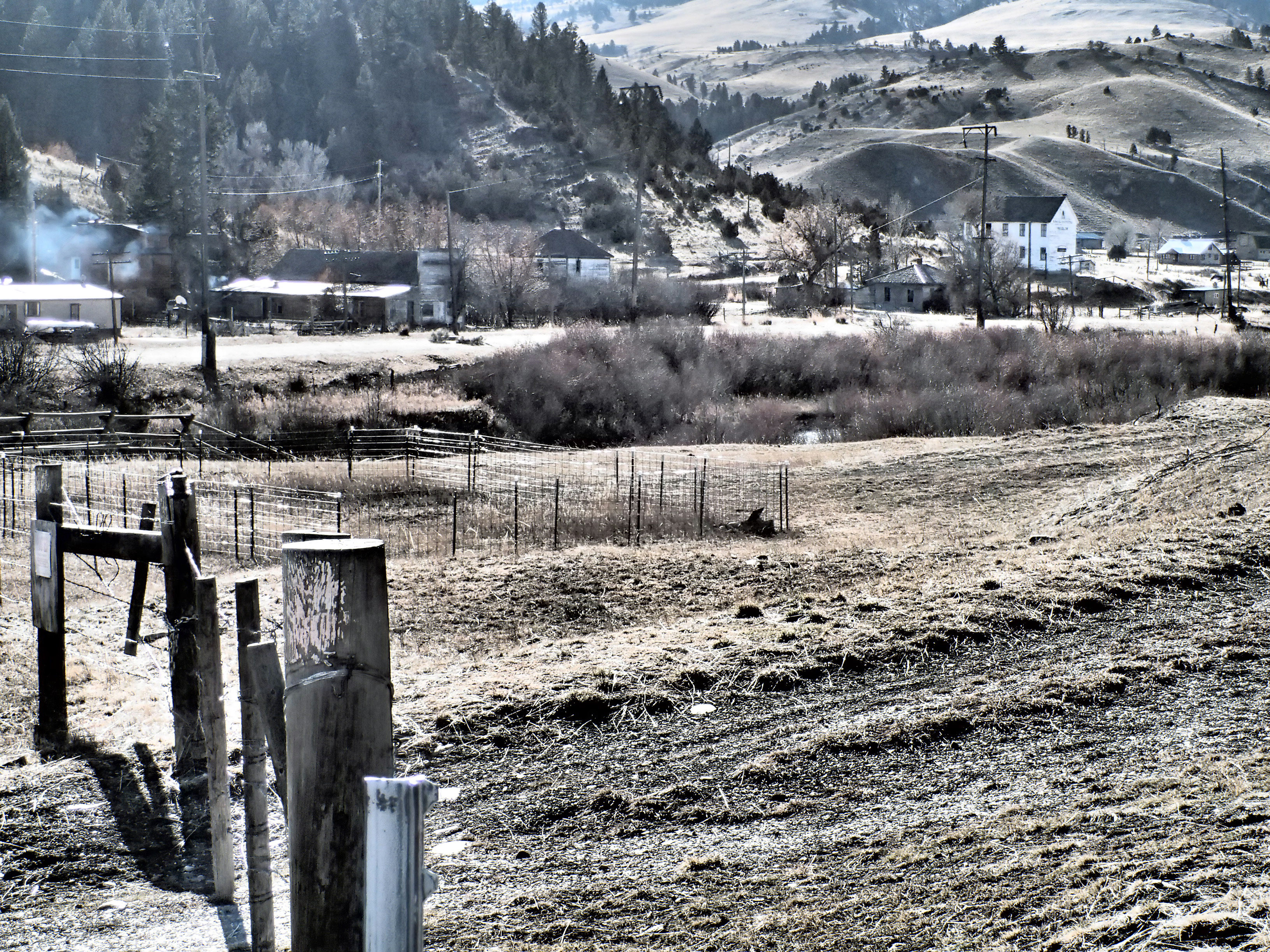 Maudlow Montana, February 2015